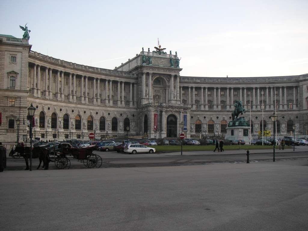 National Library in Vienna, Entrance from Heldenplatz